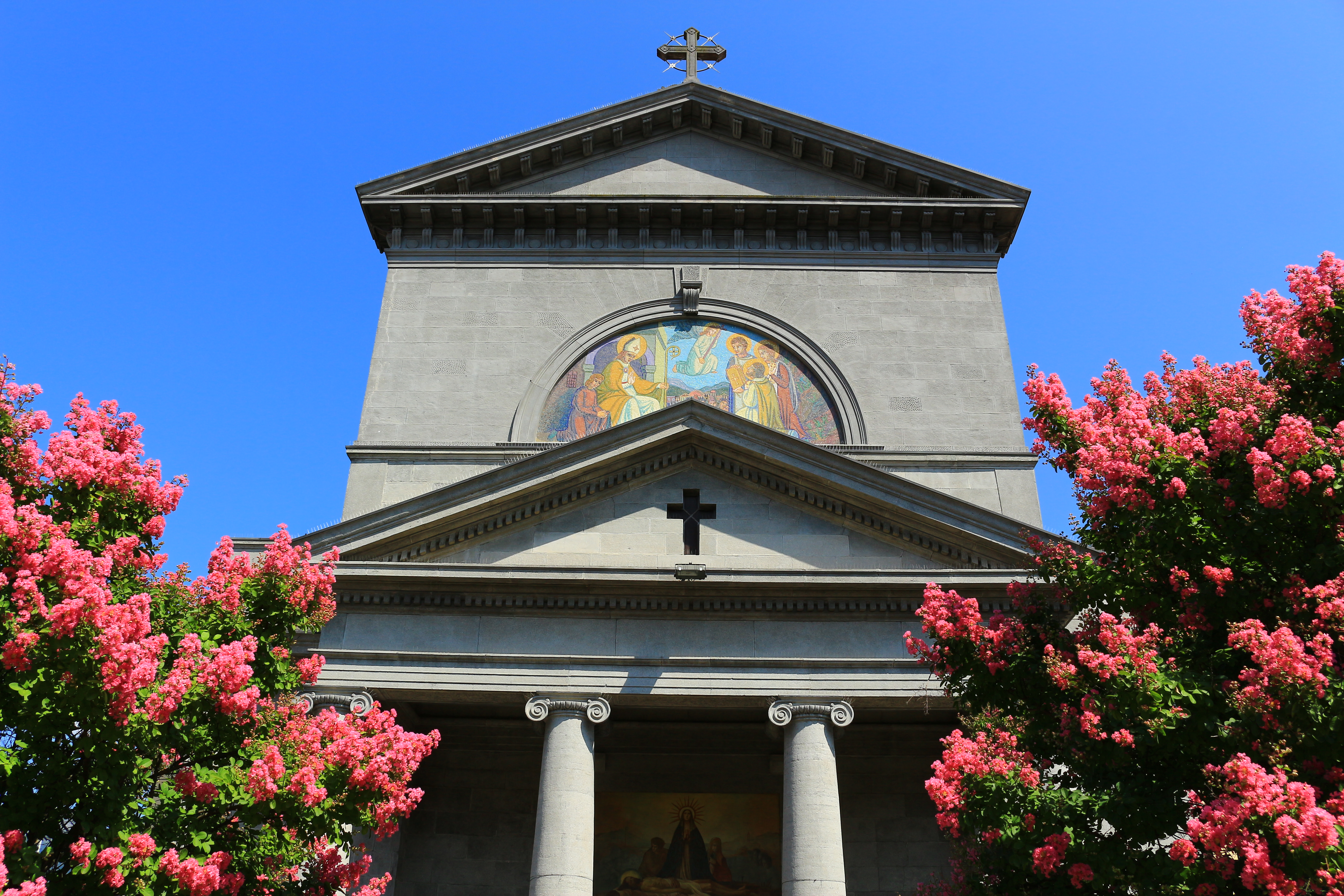 Facade of the church, remodeled by Carlo Amati in the early XIXth century Chiesa Parrocchiale di Brivio Church of Brivio (Italy) August 2018